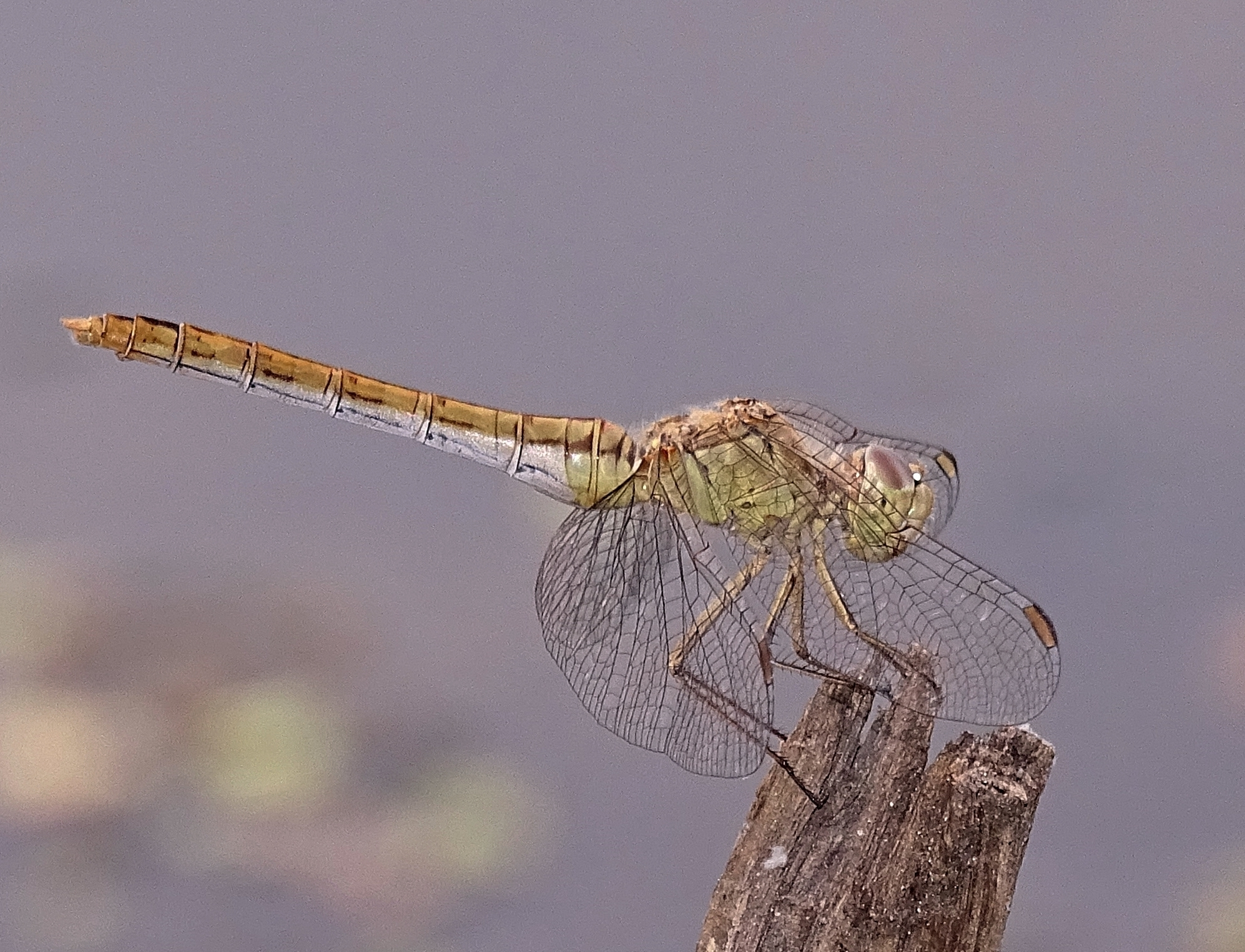 Sympetrum meridionale - ženka